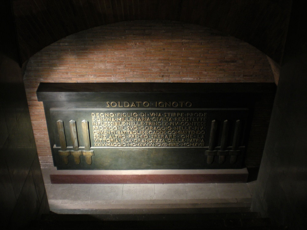 The Tomb of the Unknown Soldier, symbol of all the Italian soldiers dead during the World War I. The body of the unknown soldier was chosen from 11 remains by a woman whose son was killed during the war and never recovered. The inscription is the motivation with which the King Victor Emmanuel III awarded the posthumous Gold Medal of Military Valour to the unknown soldier: «Worth descendant of a brave ancestry and millenary civilization, he resisted uncompromisingly in the most disputed trenches, showed his bravery in the fiercest battles and eventually fell in battle longing for no reward but the victory and the greatness of his Fatherland. 24 May 1915 - 4 November 1918». The body is buried in the National Monument to Victor Emanuel II in Rome.»